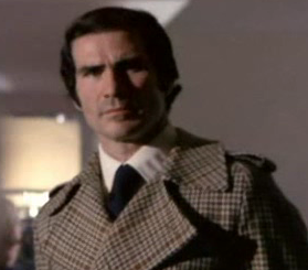 screenshot from the film La polizia ha le mani legate (1975)